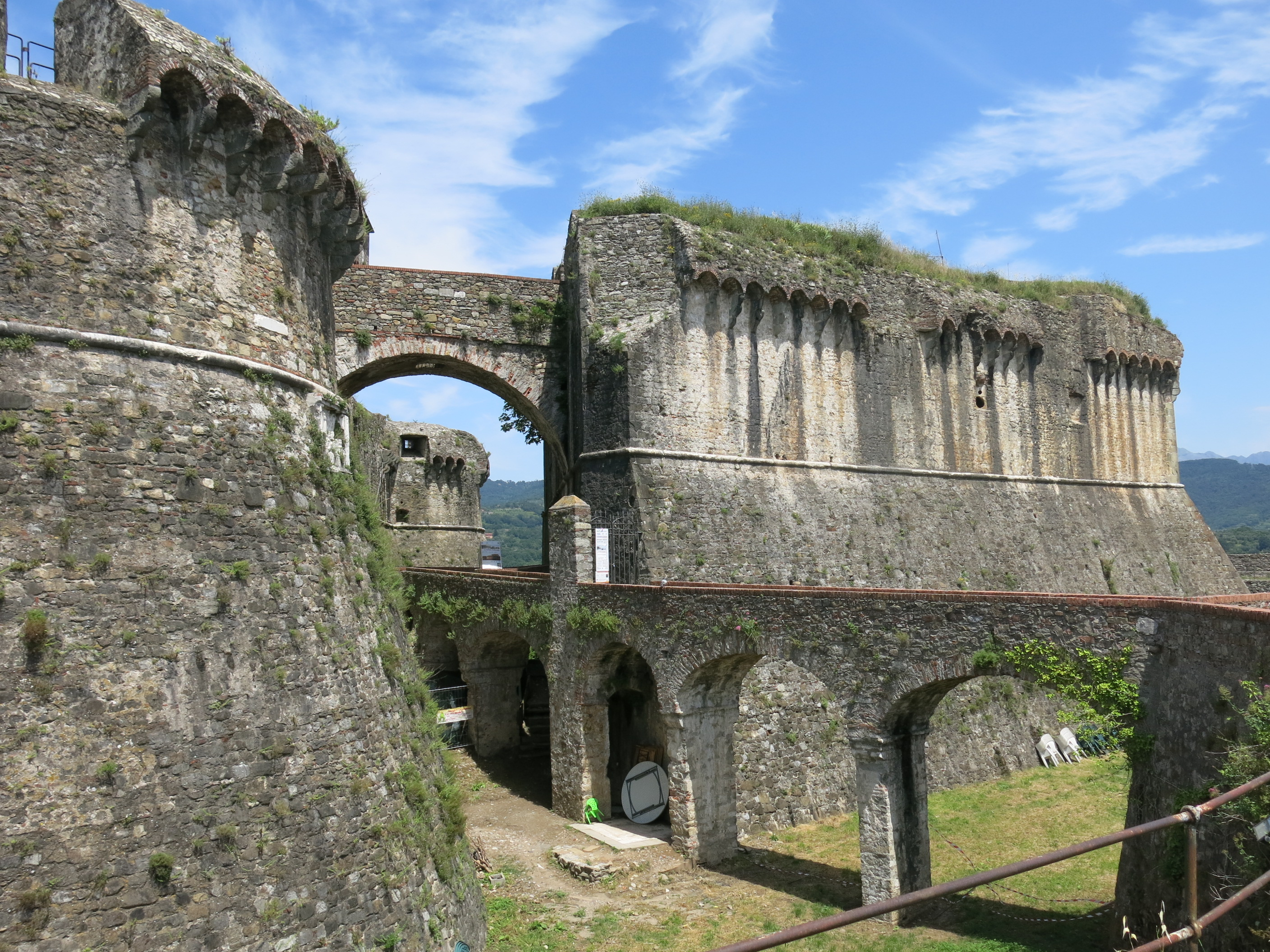 Entrance of the fortress of Sarzanello in Sarzana (Liguria, Italy).